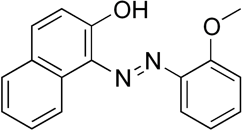 Description: Chemical structure of Sudan Red G Author, date of creation: selfmade by Shaddack, 1 December 2005 Source: self-made Copyright: Public Domain (PD) Comments: b/w hires PNG; ChemDraw